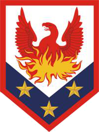 U.S. Army's w:110th Maneuver Enhancement Brigade Shoulder sleeve insignia